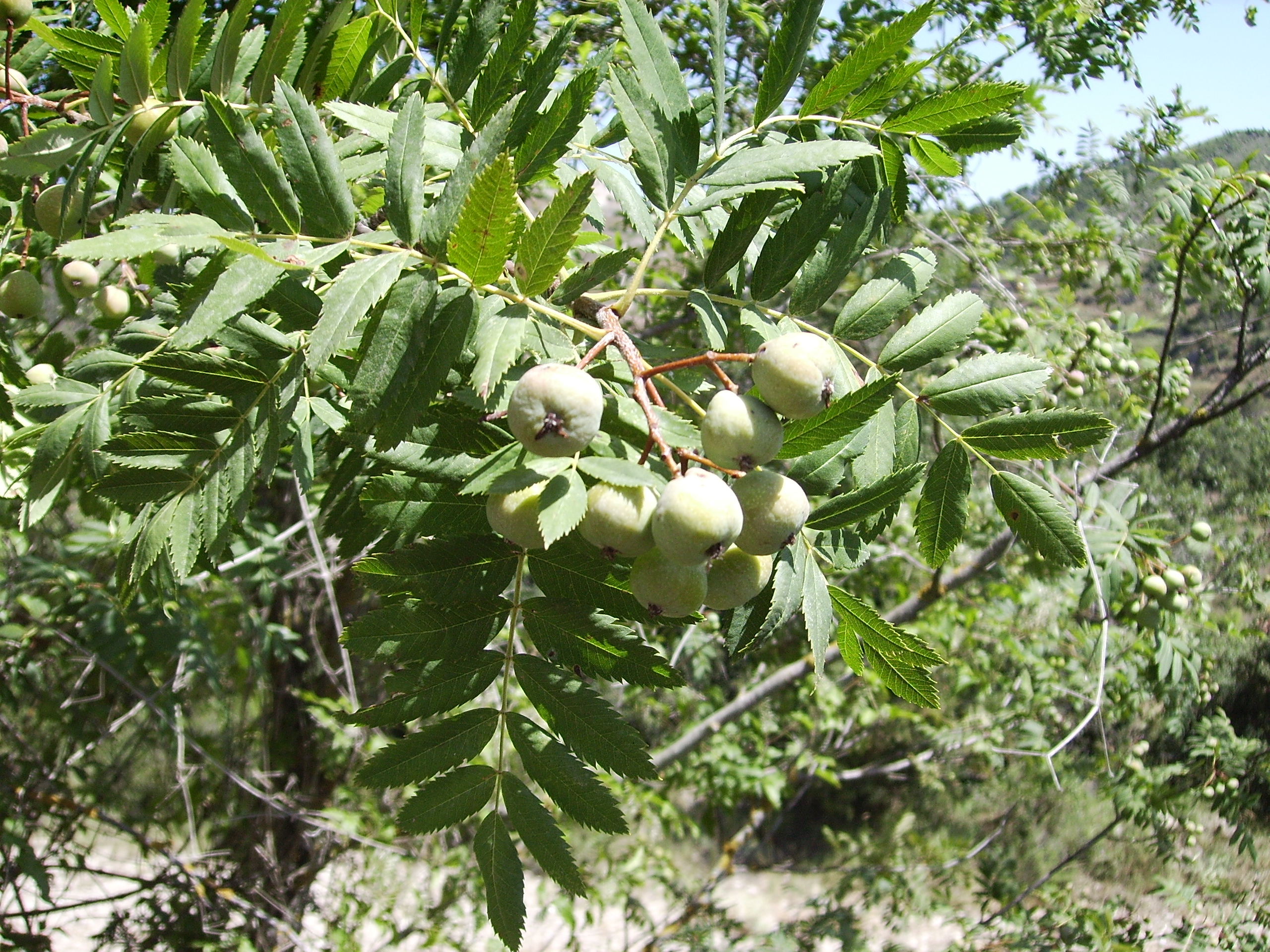 Image:Sorbus domestica_21_juliol_06_051.jpg Sorbus domestica (inmature fruits pear shaped) in Serra de Castelltallat, Catalonia Víctor M. Vicente Selvas My own work